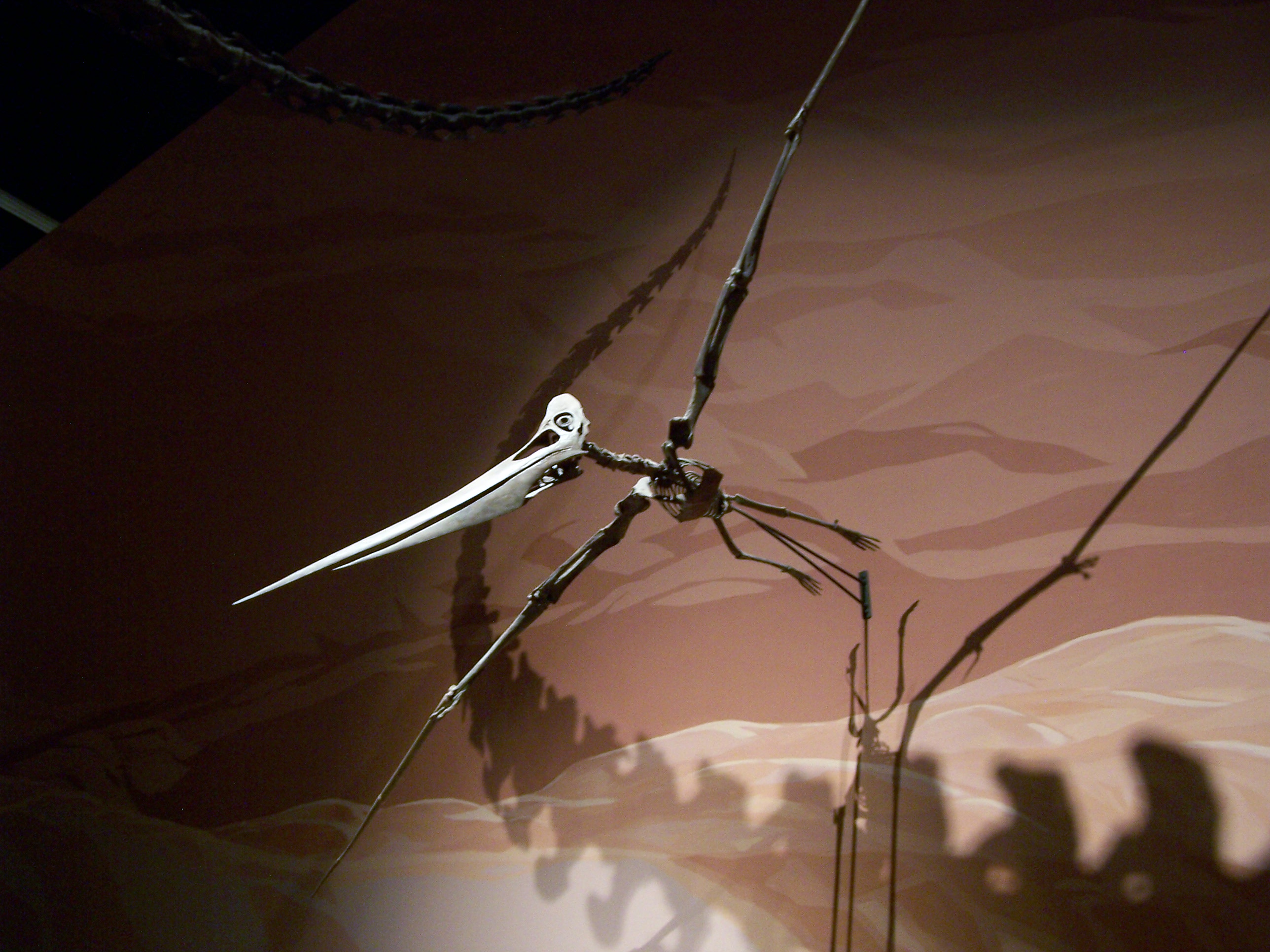 Mounted skeleton at the Museum of Ancient Life. Pteranodon skeleton at the Museum of Ancient Life. This large (and toothless) Late Cretaceous pterosaur was quite similar in size and proportions to Pelagornis and presumably had similar feeding habits.